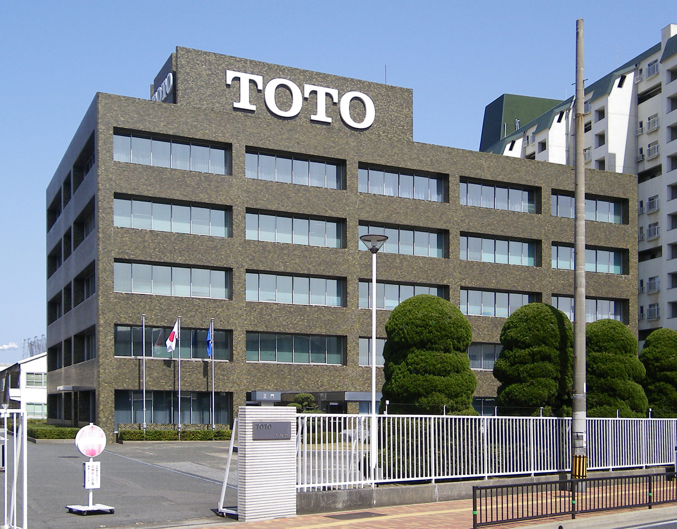 TOTO headquarters in Kokurakita-ku, Kyutakyushu, Fukuoka prefecture, Japan.